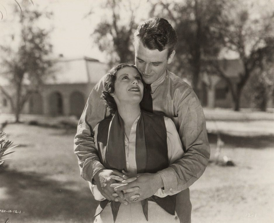 Ruth Hall and John Wayne in the American film serial The Three Musketeers (1933) - publicity still (cropped).